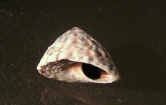 Bembicium melanostoma (Gmelin, 1791), a periwinkle from the family Littorinidae; Australia.